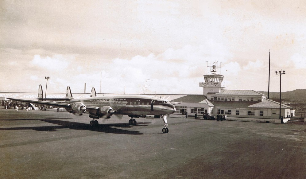 A KLM Royal Dutch Airlines Lockheed L-1049C Super Constellation (PH-TFW/4507) at Santa Maria airport, Azores.